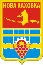 Coat of Arms of Nova Kahovka Kherson Oblast Ukraine